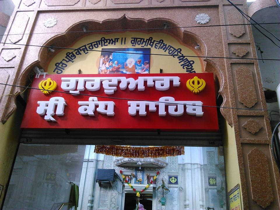 Gurudwara KandhSahib (Marriage place of Guru Nanak Dev ji)